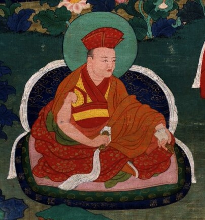 Jamyang Chodrak (b.1478 - d.1523) - 3rd Drukchen